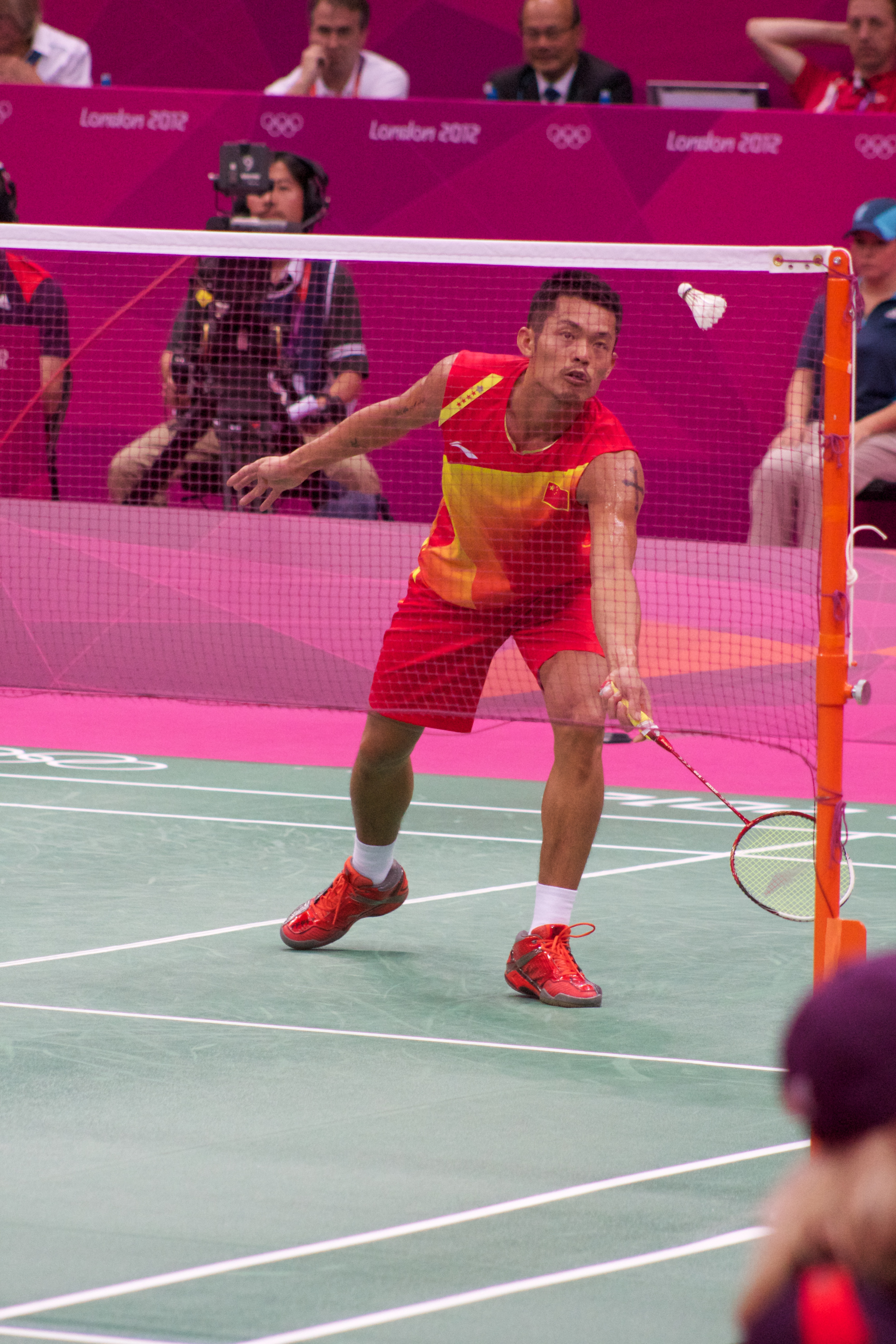 Badminton at the 2012 Summer Olympics